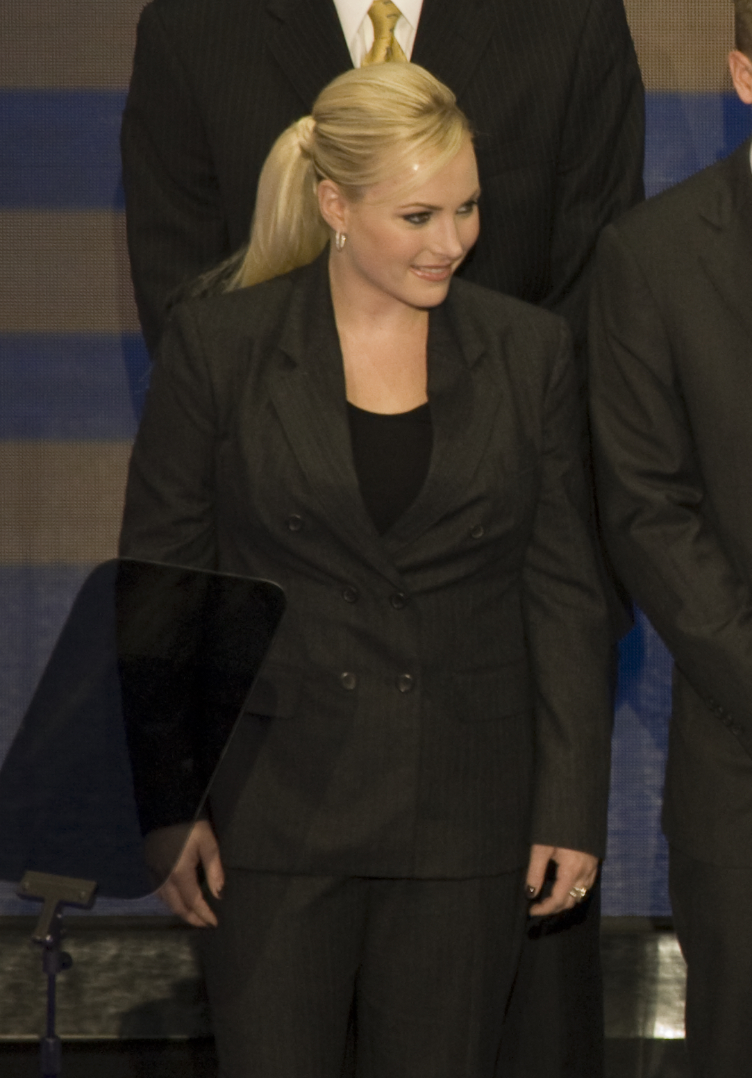 Title: Republican National Convention, September 1-4, 2008. Presidential candidate John McCain's family, wife Cindy in the middle in green outfit, St. Paul, Minnesota Physical description: 1 photograph : digital, TIFF file, color. Notes: Credit line: Photographs in the Carol M. Highsmith Archive, Library of Congress, Prints and Photographs Division.; Forms part of the Carol M. Highsmith Archive.; Gift; Carol M. Highsmith; 2009; (DLC/PP-2009:083).; Title and date provided by the photographer.